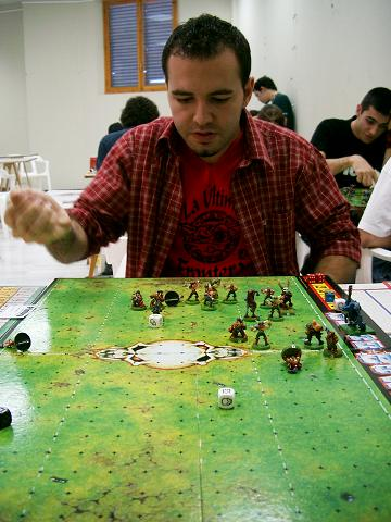 One guy playing Bloodbowl in competition